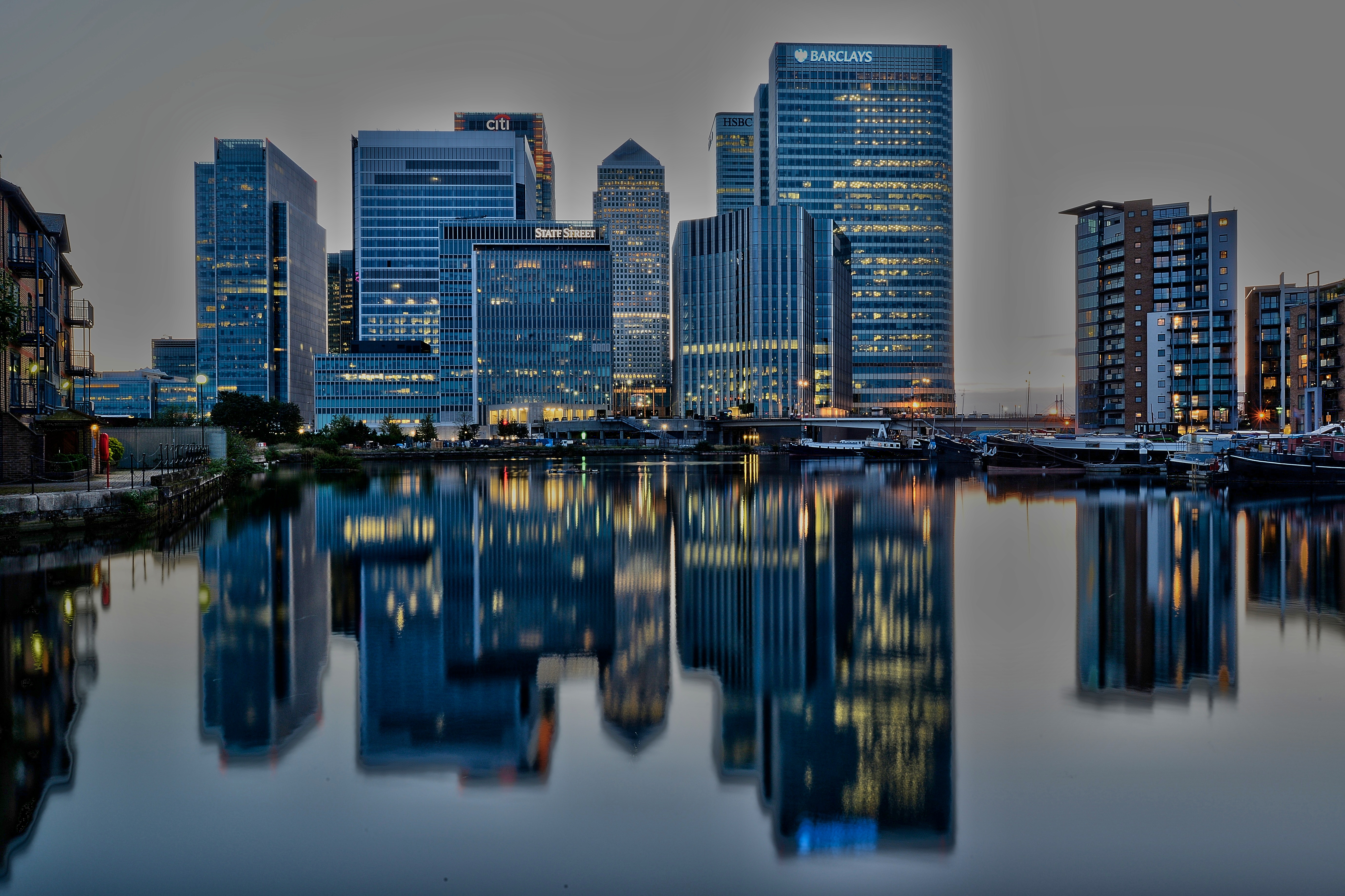 Canary Wharf after sunset